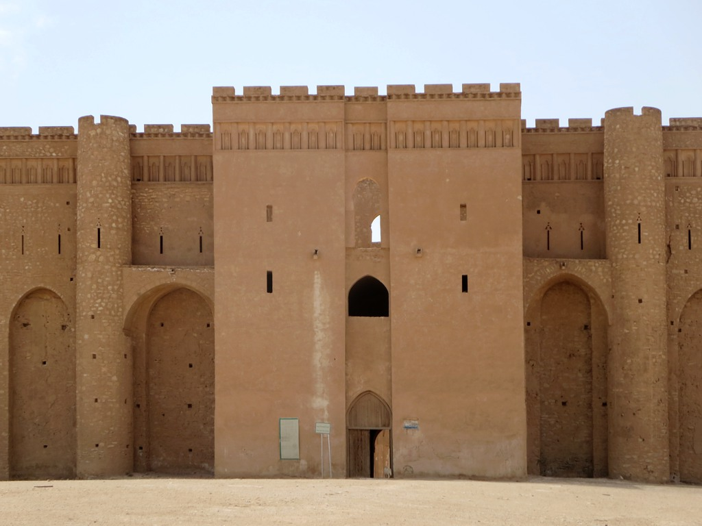 Al-Ukhaidir Fortess in Karbala